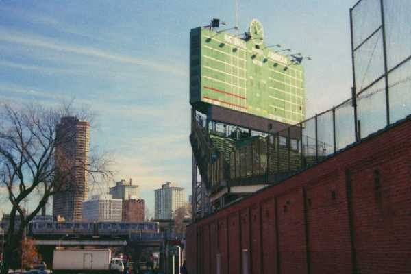 An archetypal Chicago image - the old fashioned scoreboard of Wrigley Field, with an L train in the distance. 14:59, 31 March 2005 . . Googie man . .600 x 400 (59,976 bytes)